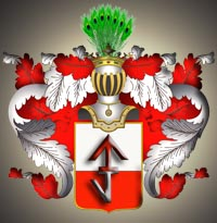 Coat of Arms of Brezowsky family